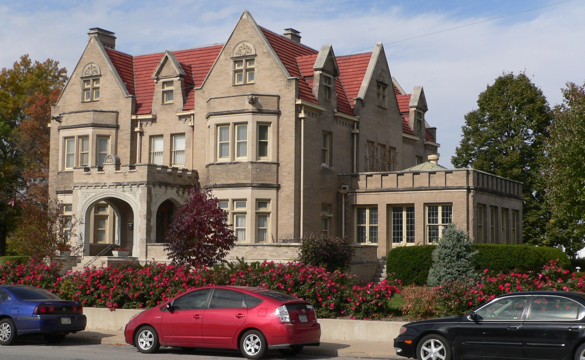 Gottlieb Storz House, located at 3708 Farnam Street in Omaha, Nebraska; seen from the southeast.